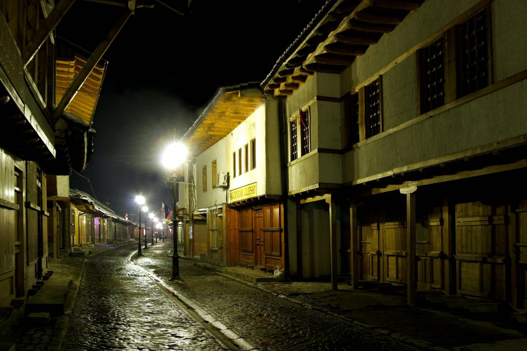 Đakovica's old market at night